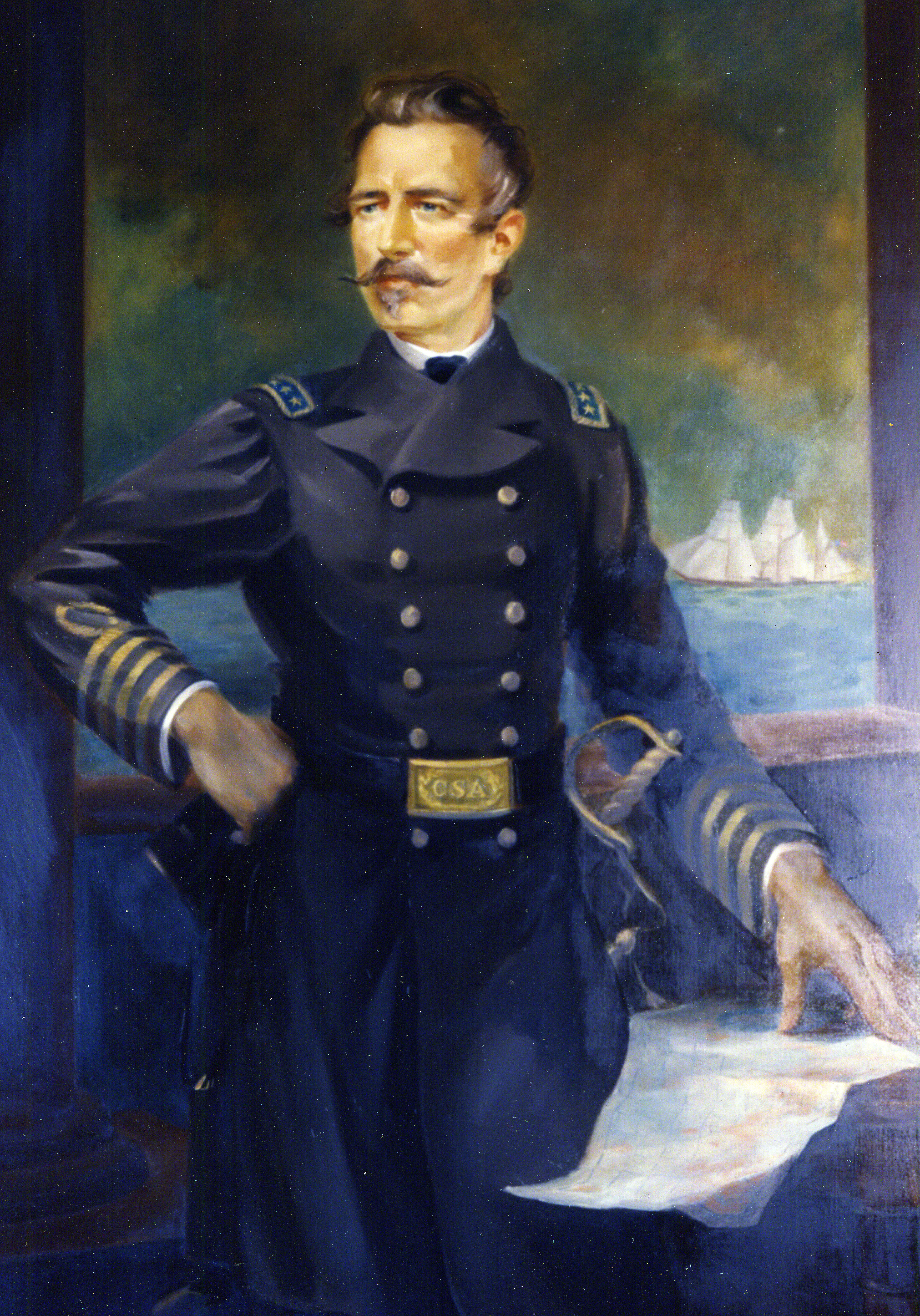 Rear Admiral Raphael Semmes, Confederate States Navy, (1809-1877)Semmes took command of CSS Alabama on 24 August 1862 at sea off the island of Terceira, Azores, beginning his career of raiding American commerce. In February 1865, he was promoted to Rear Admiral and commanded the James River Squadron during the last months of the Civil War. When the fall of Richmond, Virginia, forced the destruction of his ships, he was made a Brigadier General and led his sailors as an infantry force. Briefly imprisoned after the conflict, he worked as a teacher and newspaper editor until returning to Mobile, where he pursued a legal career. Raphael Semmes died on 30 August 1877. Rear Admiral Raphael Semmes, CSN Portrait by Maliby Sykes. Semmes is depicted wearing the belt buckle of a Confederate States Navy Admiral. Courtesy of the State of Alabama. Naval History and Heritage Command: NH 45798-KN (Color).